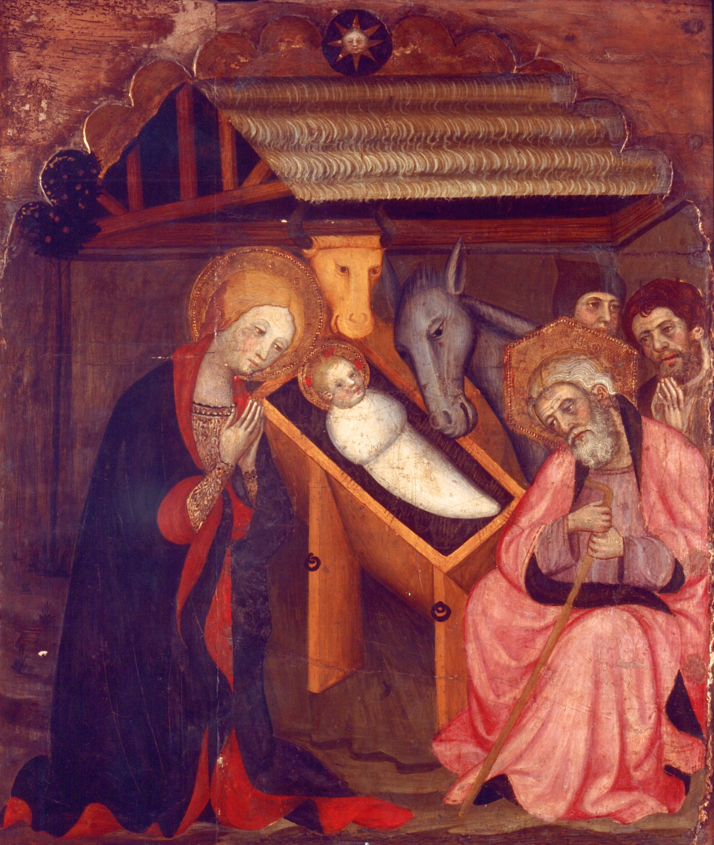 Pere Serra. Taula de la Nativitat, rpocedent d'un retaule de l'església de Sant Pere de Cubells, c.1400